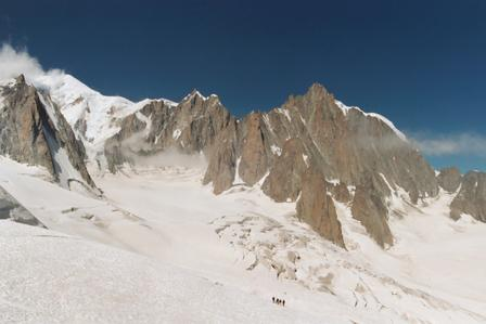 Glacial regions of the Alps. Near Mont Blanc, July 2003. Photo by Fawcett5, and released by him into the public domain.